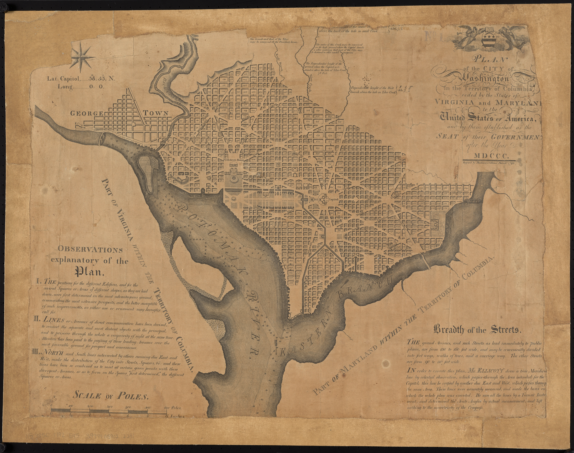 Zoom into this map at . Author: Ellicott, Andrew Publisher: Thackera & Vallance Date: 1792 Location: Philadelphia Dimensions: 52 x 68 cm. Scale: [ca. 1:19,800] From: Norman B. Leventhal Map Center Collection at the Boston Public Library / American Revolutionary War-Era Maps (Collection of Distinction) Call Number: G3850 1792 .E45